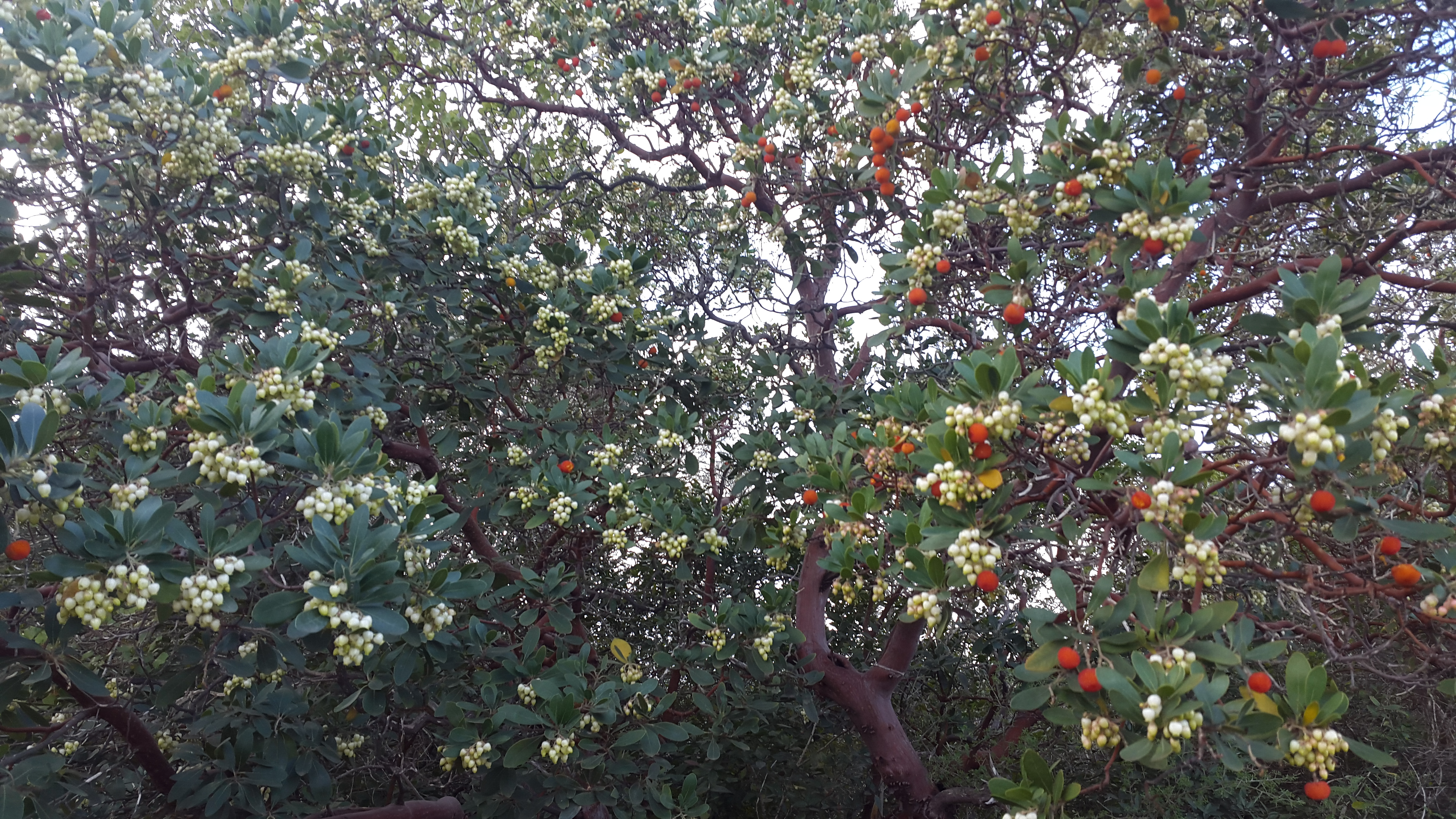 Arbutus or what is known in the city of Bayda Shammari green mountain in Libya. (32°52'57.7"N 21°41'19.5"E)